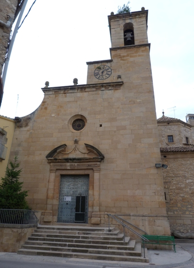 Church of Sant Pere (El Talladell, Lleida, Catalonia)